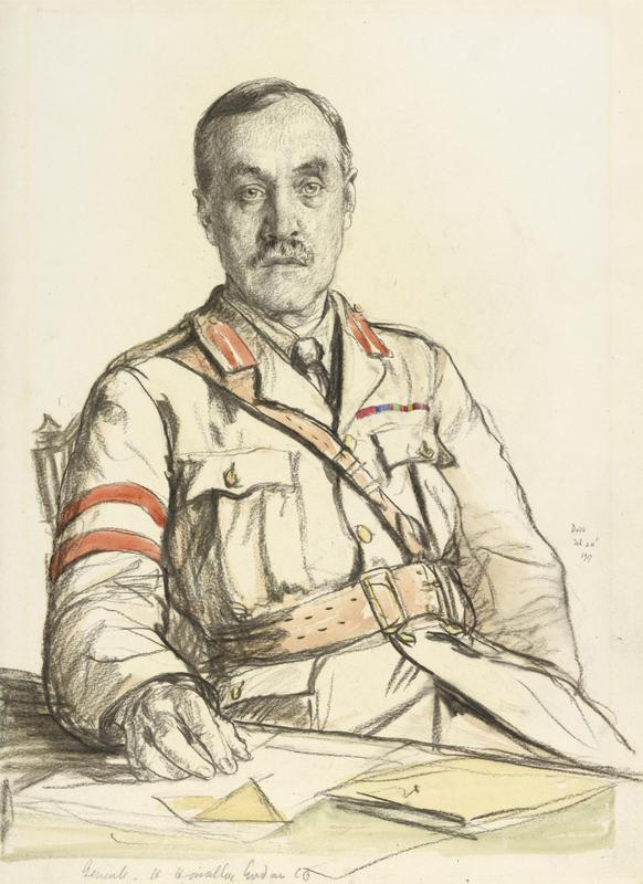 Lieut-general Alexander Hamilton Gordon, Cb image: a half length portrait of General Alexander Hamilton Gordon in uniform, sitting at a table with his right hand resting on it.